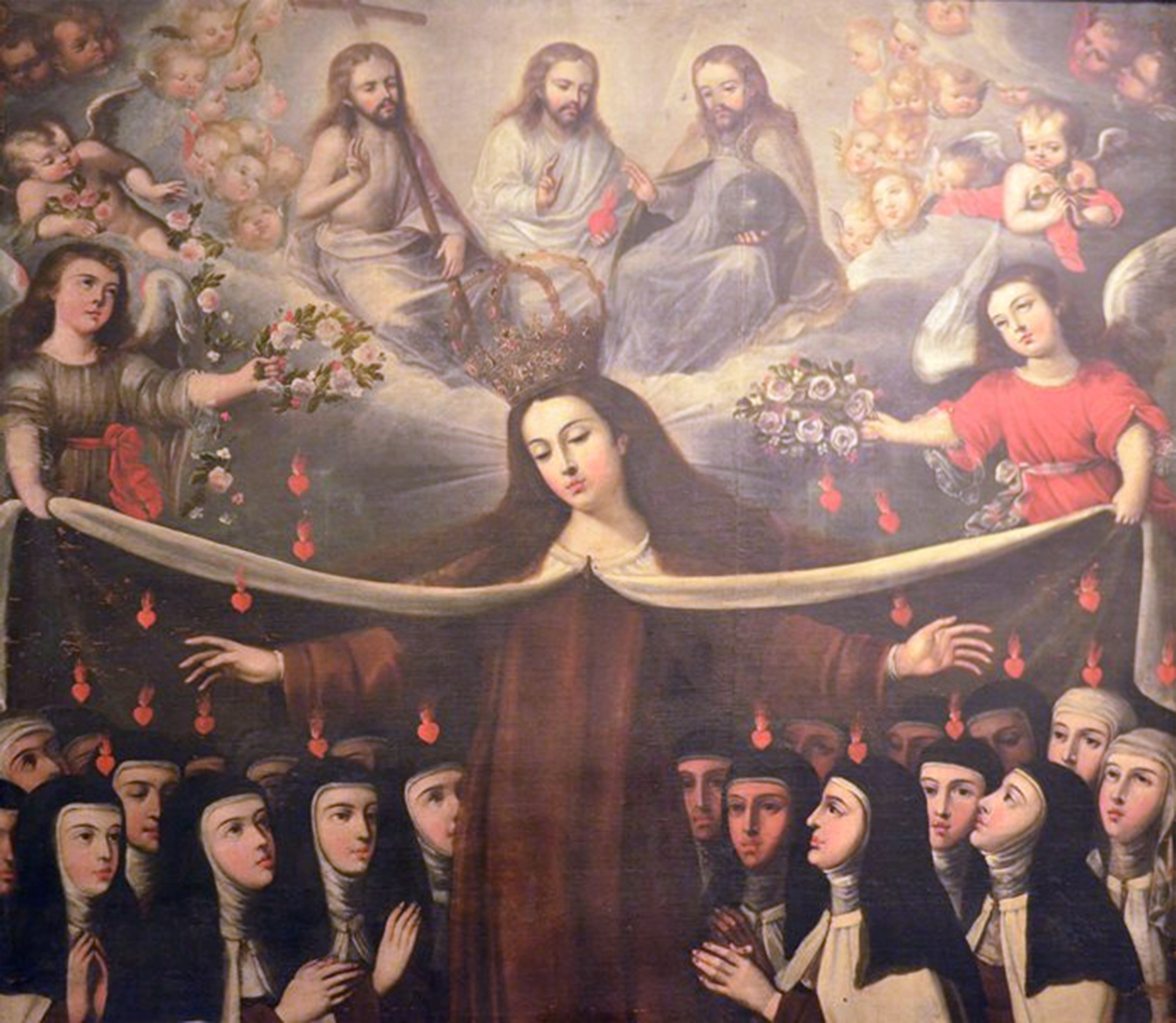 Virgin of Carmen by Isabel de Santiago - Movement (Escuela Quiteña) in the Carmen Alto Museum - Quito (Ecuador)